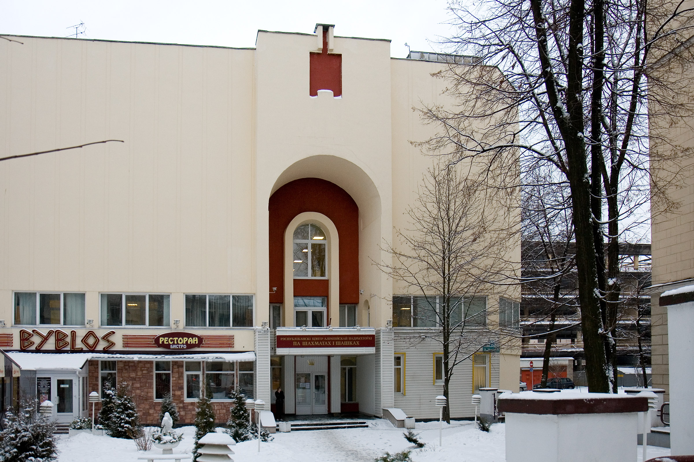 Republican centre of olympic training in chess and checkers. Minsk, Belarus